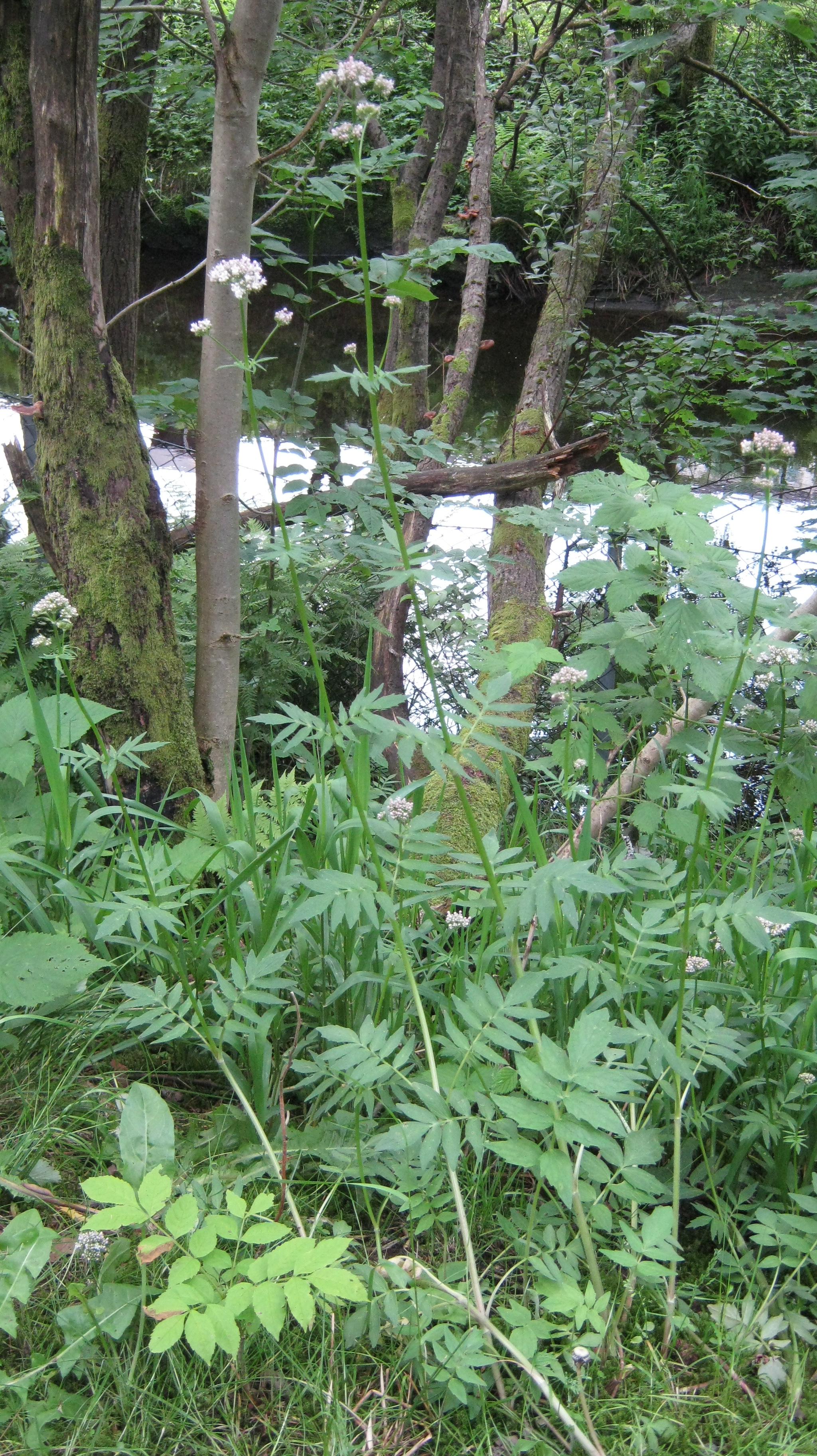 Valeriana sambucifolia, photograhed in Bergen, NorwayNorsk nynorsk: Vendelrot, Valeriana sambucifolia, fotografert i Bergen